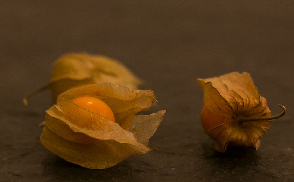 Three physalis (also knows as Cape gooseberries), one partially opened.